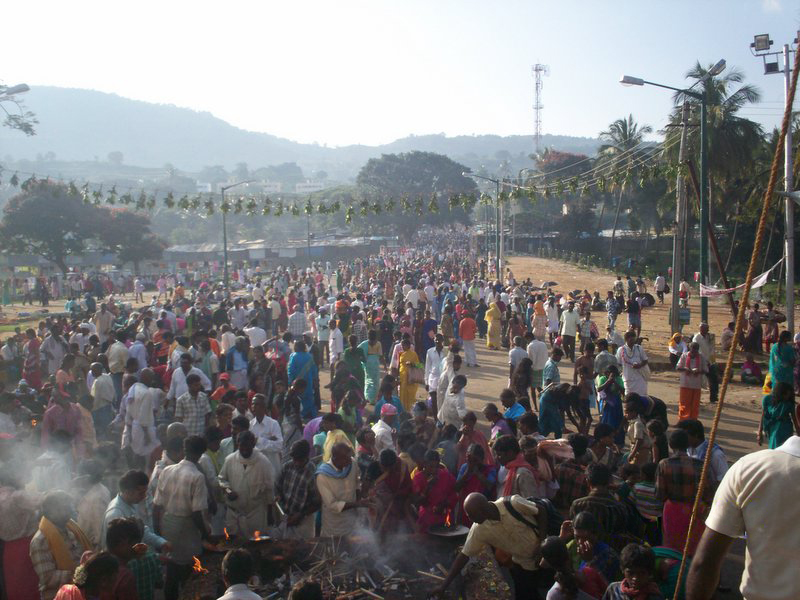 Crowd at male mahadeshwara hills